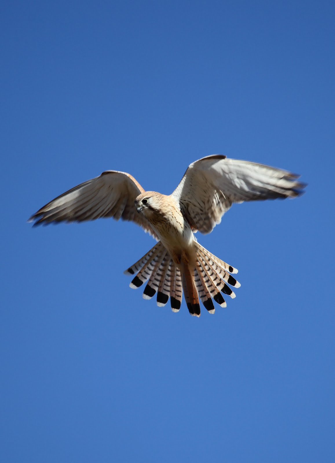 Nankeen Kestrel (Falco cenchroides), Northern Territory, Australia